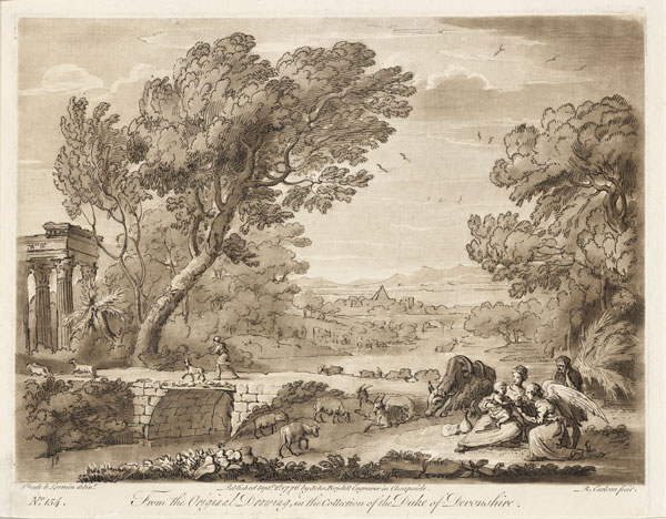 liber veritatis holy family